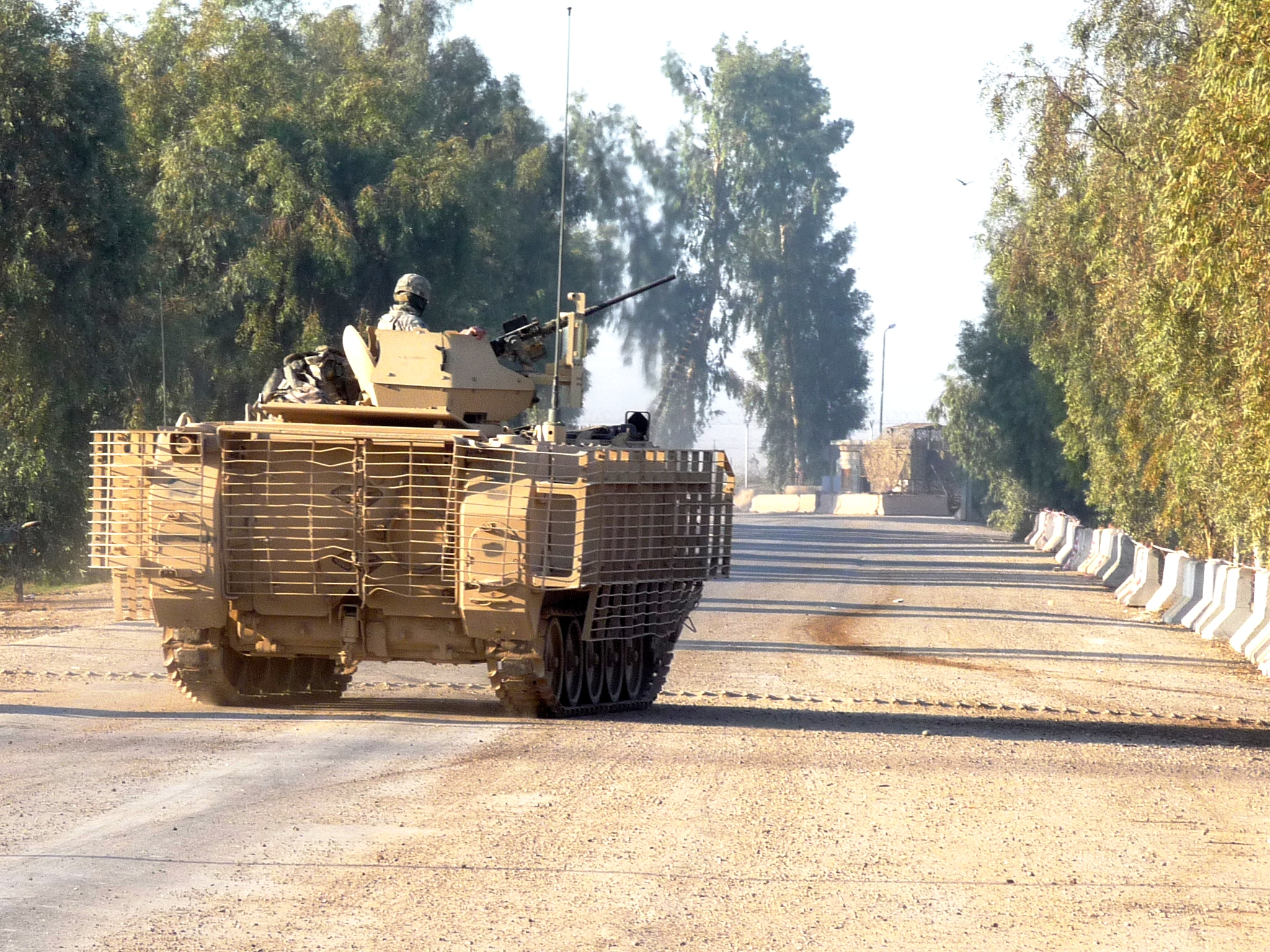 M113s used by the Air Force (532nd Expeditionary Security Forces Squadron) at Joint Base Balad before we got MRAPs to replace them.